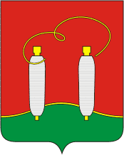 Vysokovsk (Moscow oblast), coat of arms (1997)